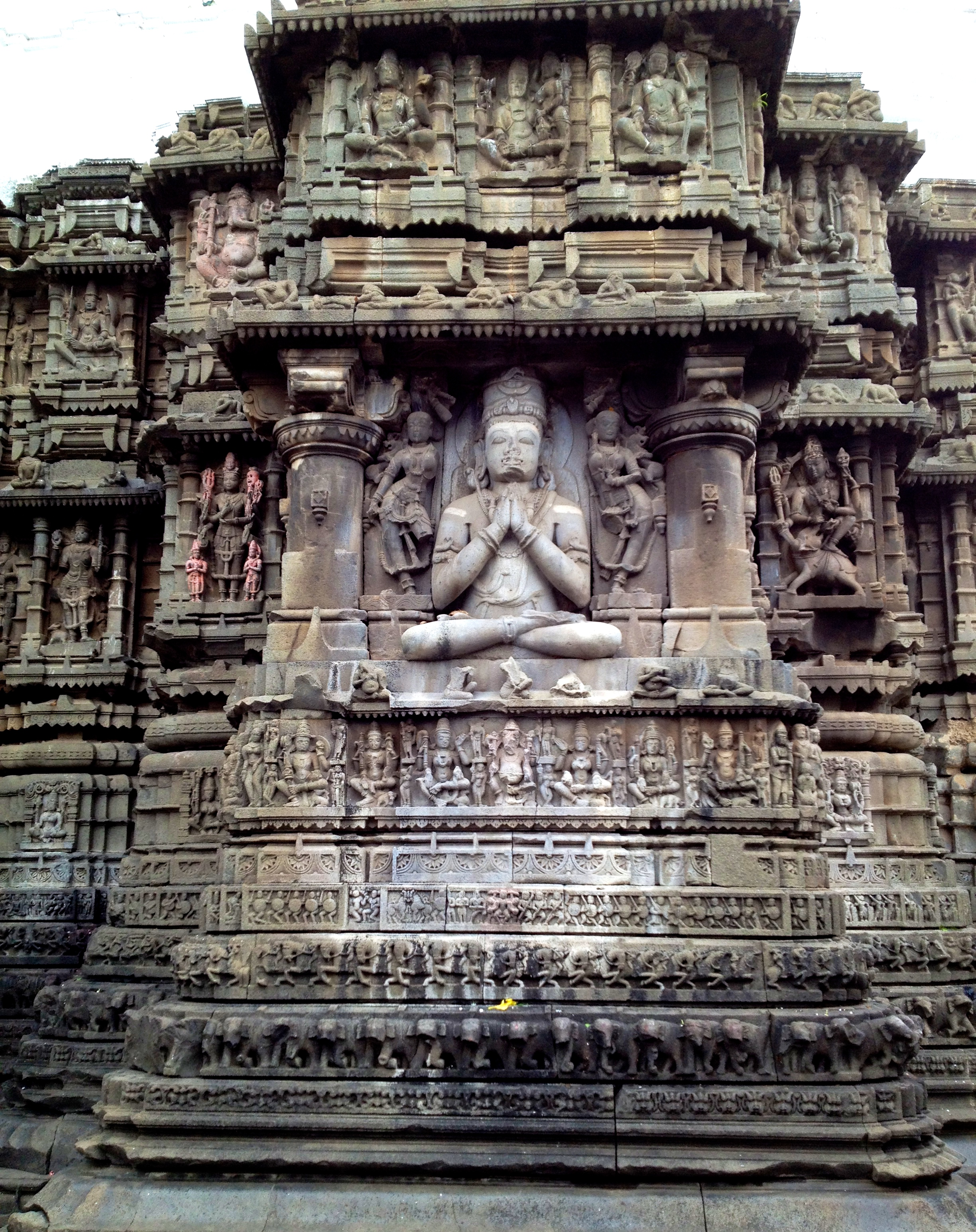 Aundha Nagnath is the eighth of the twelve Jyotirlingas, it is an important place of pilgrimage.The present temple is said to have been built by Yadavas of devagiri and dates to 13th century.The first temple is said to be from time of Mahabharata and is believed to have been constructed by Yudhishthira, eldest of Pandava, when they were expelled for 14 years from Hastinapur. It has been stated that this temple building was of seven-storyed before it was ransacked by Aurangzeb. The temple covers an area of 7200 sq ft and height of 60 ft. The total area in which temple campus is spread is about 60,000 sq. ft. Apart from the religious significance, the temple itself is worth seeing for its unbelievably beautiful carvings. The present temple is built in Hemadpanthi style of architecture. Large number of pilgrims visit this temple on Shivratri and Vijayadashami.